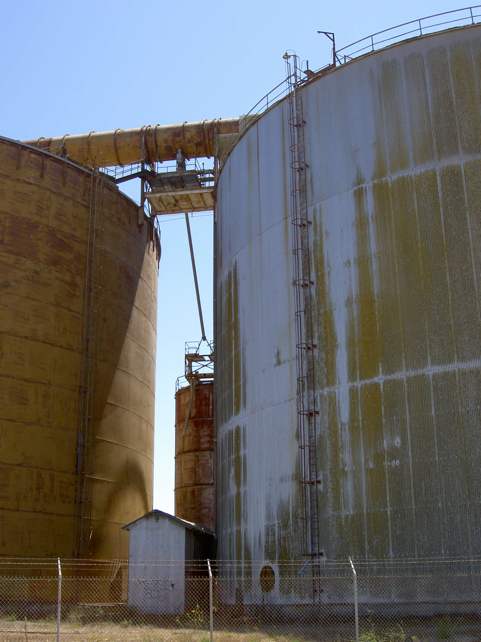 Photo of storage silos at the abandoned sugar plant in Betteravia, California.